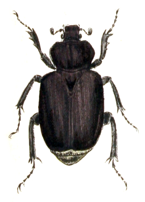 Osmoderma eremita, from Calwer's Käferbuch, Table 17, Picture 14. Taxonomy was updated to 2008, using mostly the sites Fauna Europaea and BioLib. Please contact Sarefo if the determination is wrong!